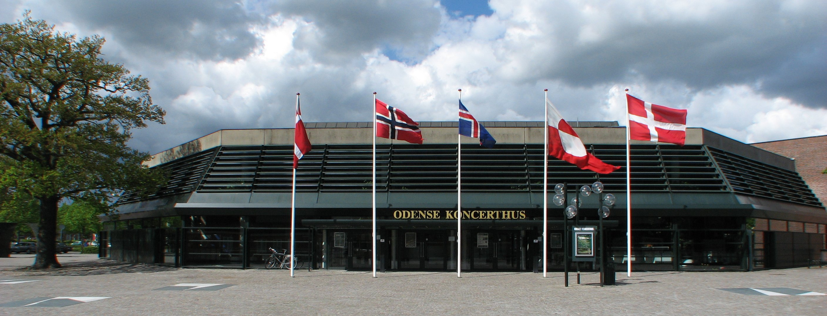 Odense Concert Hall (Odense Koncerthus)